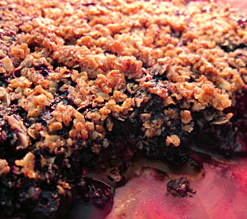 A variant on apple crisp made with blueberries and raspberries instead of apples.